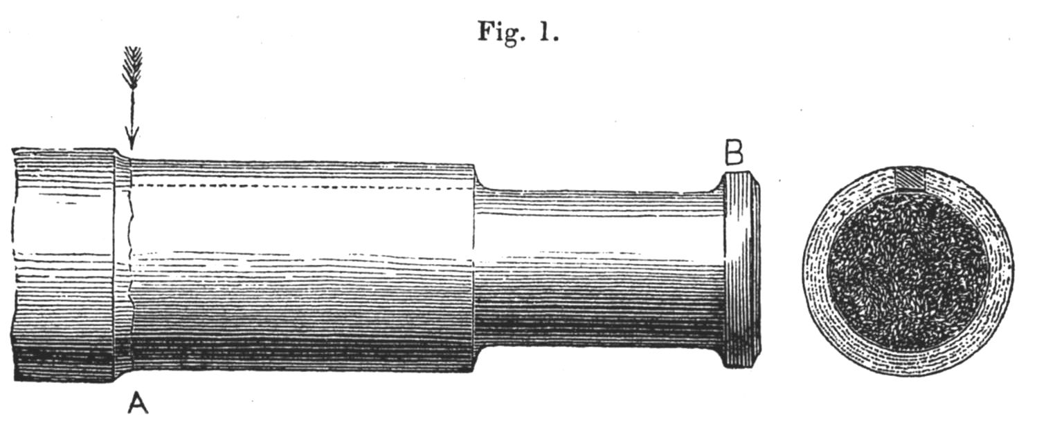 Joseph Glynn, Paper No 617, Proc. ICE en:1844 scanned by Peterlewis 09:04, 28 May 2007 (UTC)